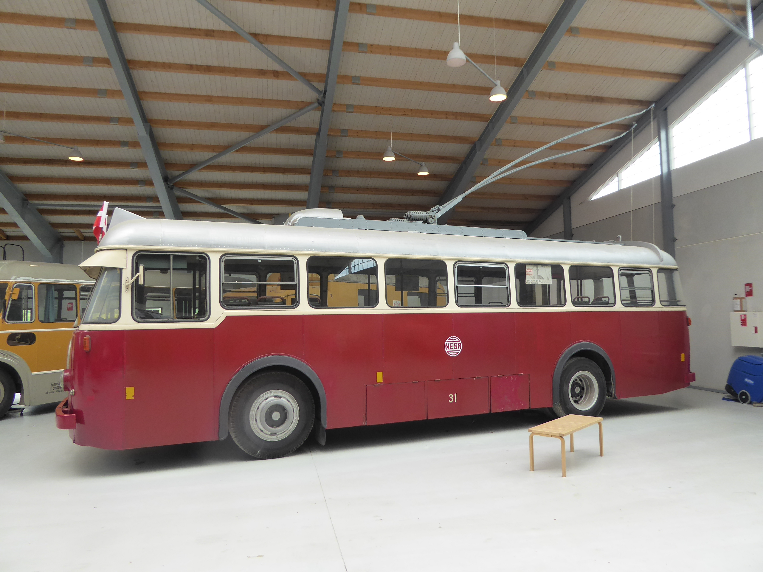 Old trolleybus of Copenhagen, NESA 31 from 1953, at Sporvejsmuseet Skjoldenæsholm in Denmark.